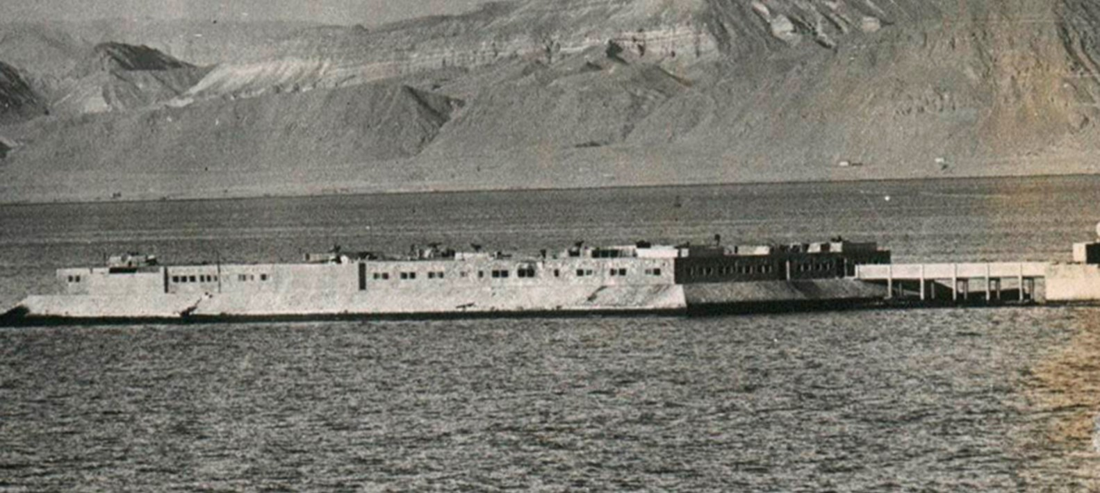 Photo of the Green Island